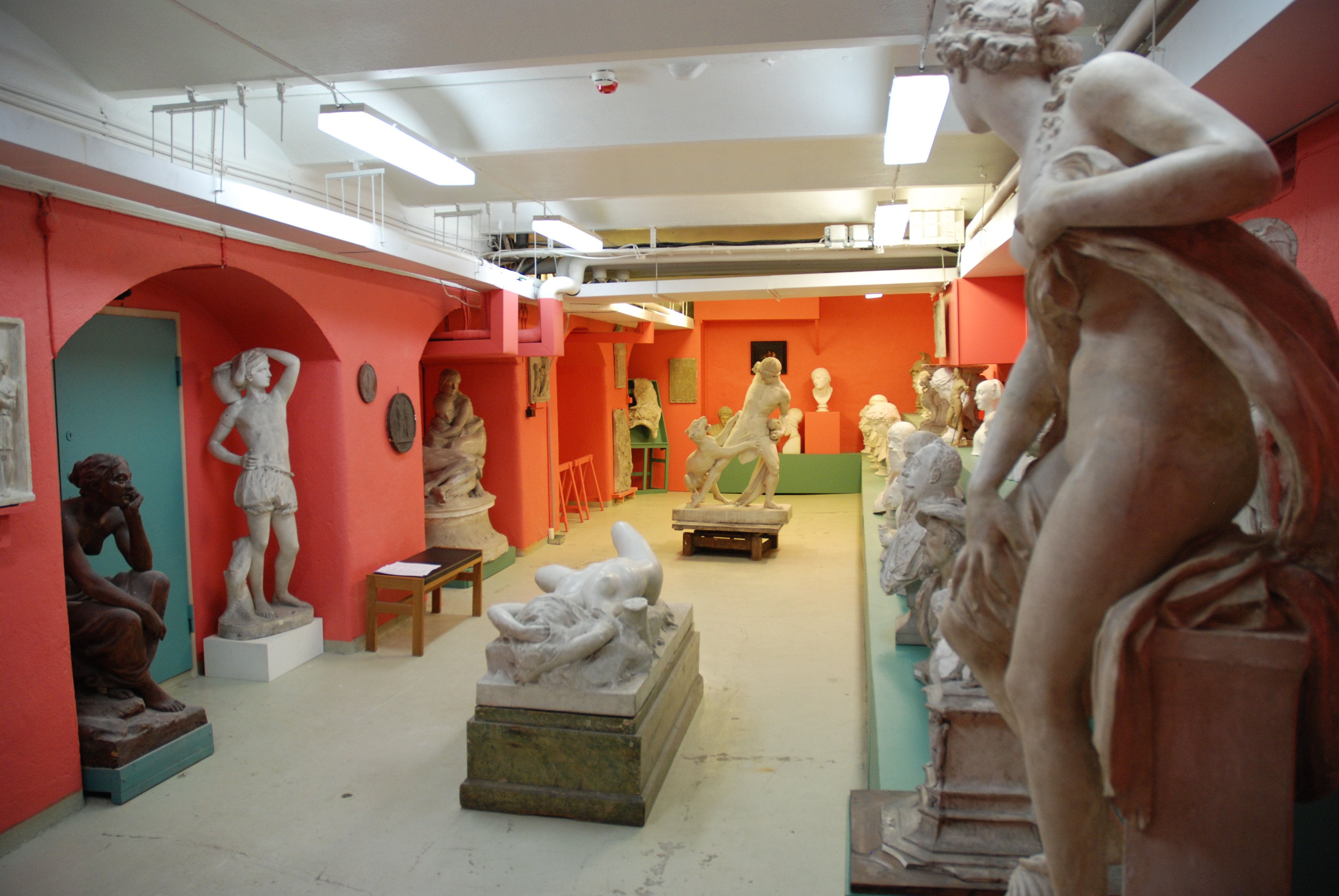 Sculptures in the sculpture archive of the Swedish Acadedemy of Fine Arts (Konstakademien)